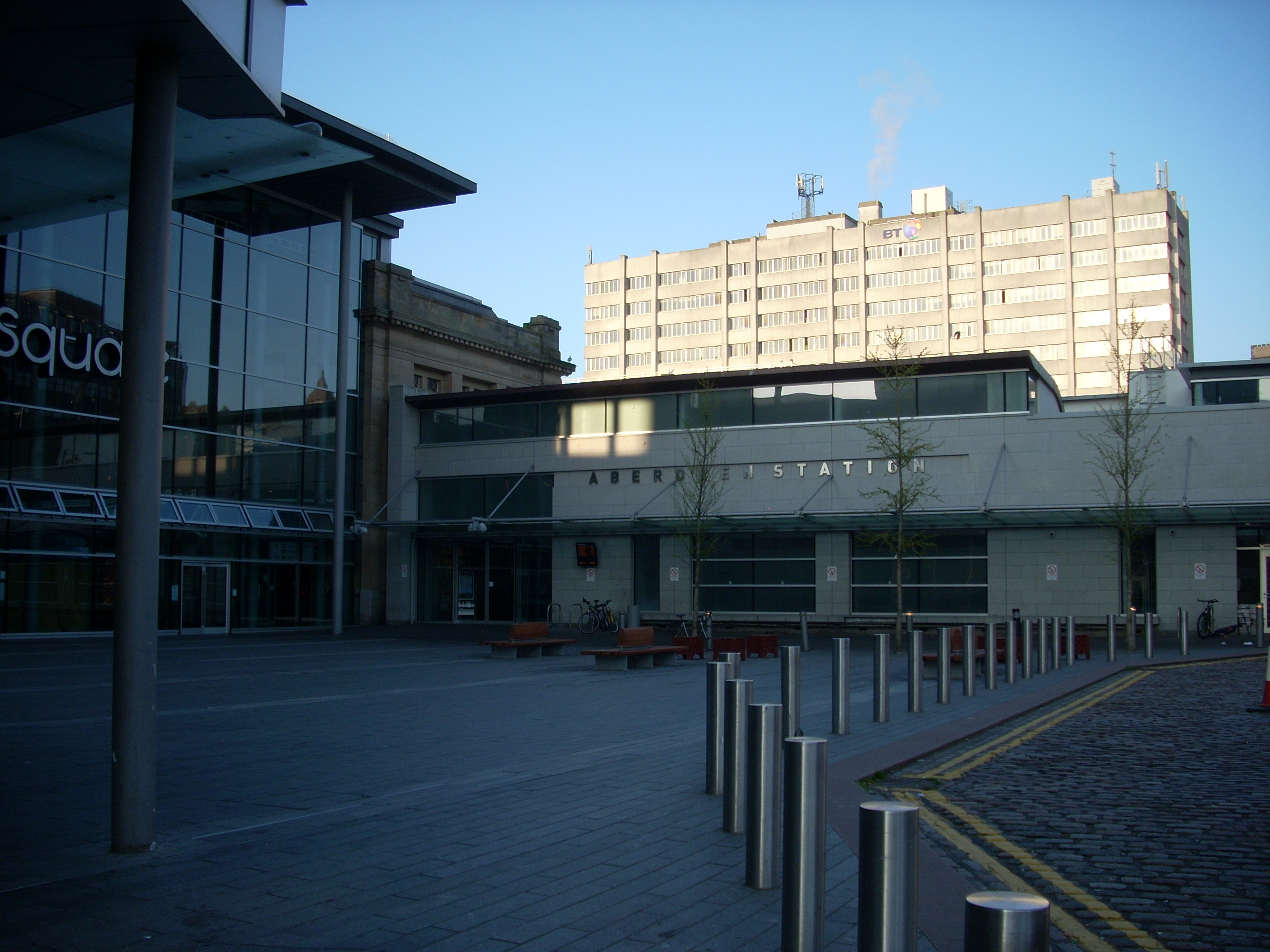 Plaza outside Aberdeen Station at Union Square, Guild Street, Aberdeen.